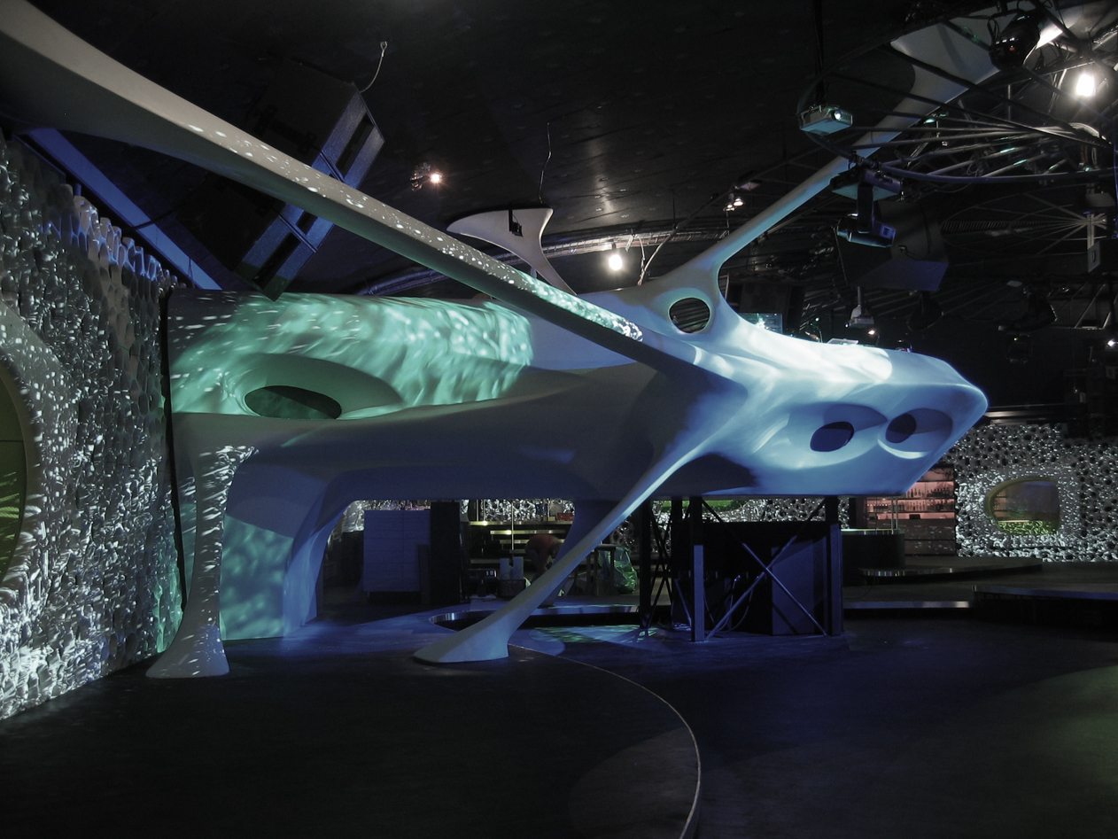 CocoonClub, Frankfurt 2004. Photo by Sascha Jahnke, courtesy of 3deluxe. – The most conspicuous design element is the organically shaped white DJ pulpit which seems to be hovering above the danve floor. It hosts the media technology for the entire club.